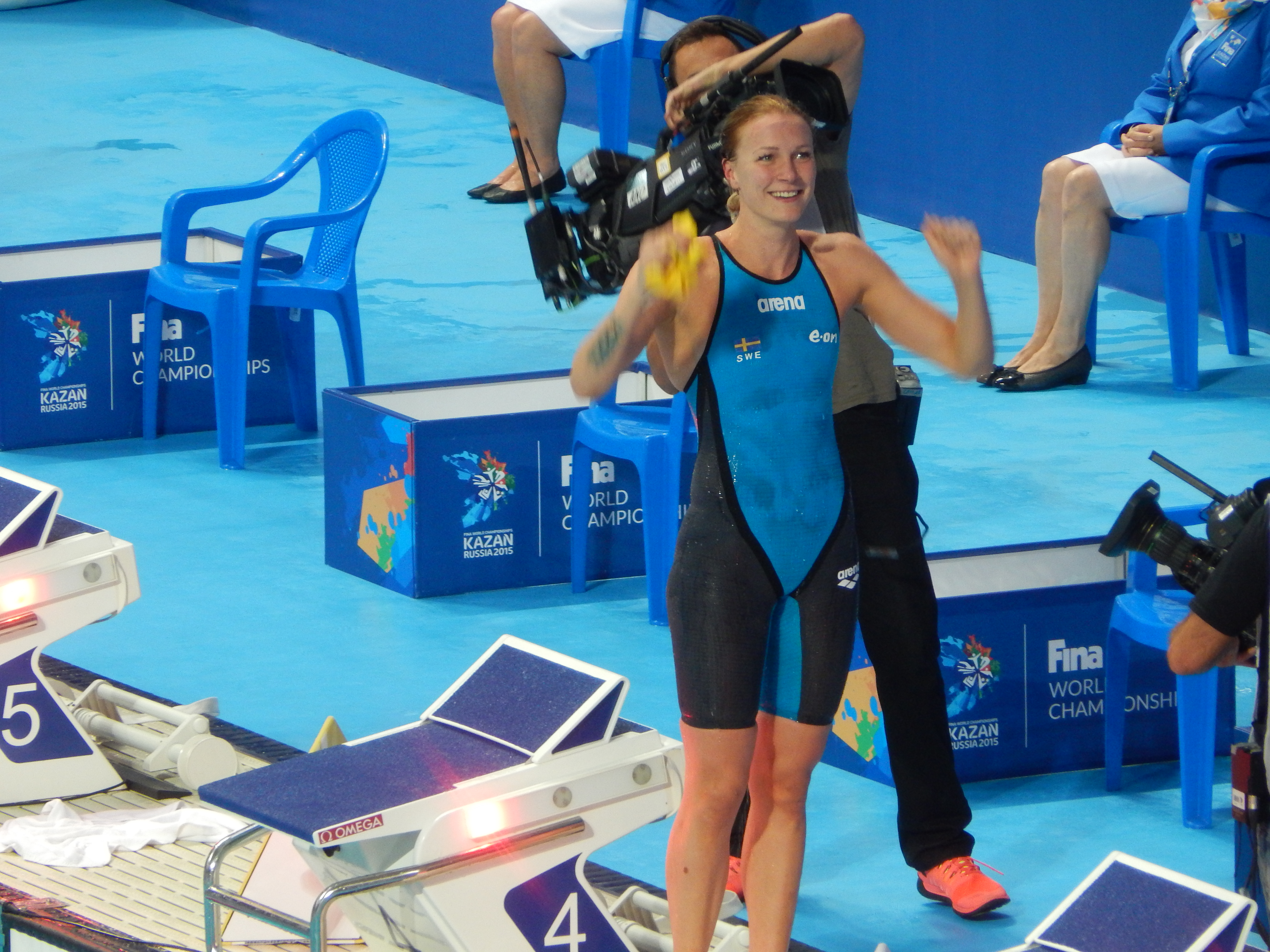 Sarah Sjöström after her amazing win in 100m butterfly final (WR)